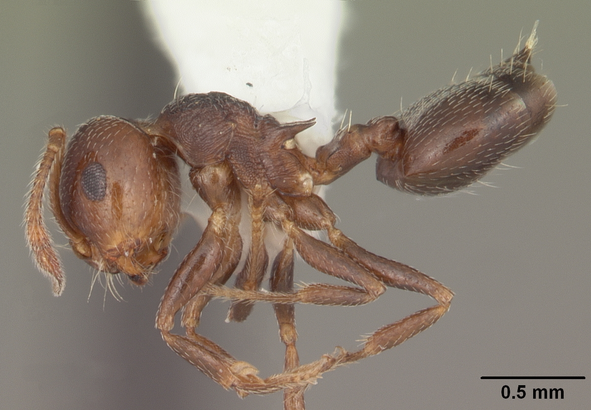 Profile view of ant Crematogaster vermiculata specimen casent0103810.